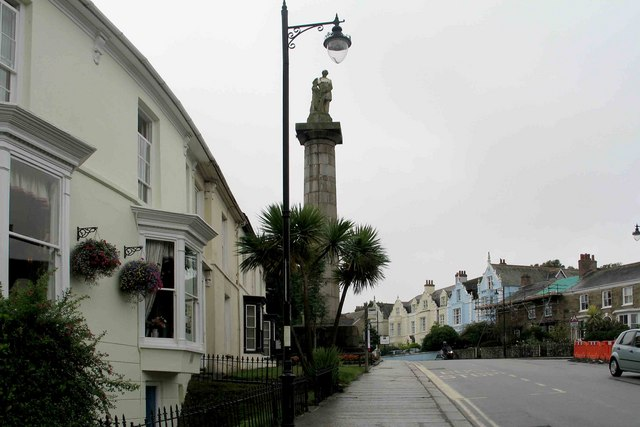 Richard Lander Monument, Truro. Statue on column.